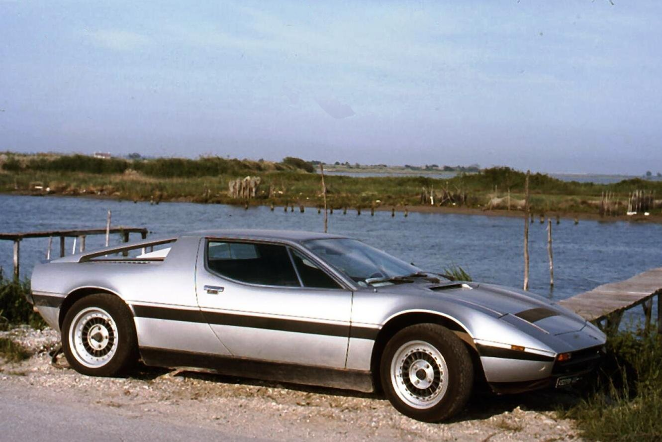 Maserati Merak 2000 GT